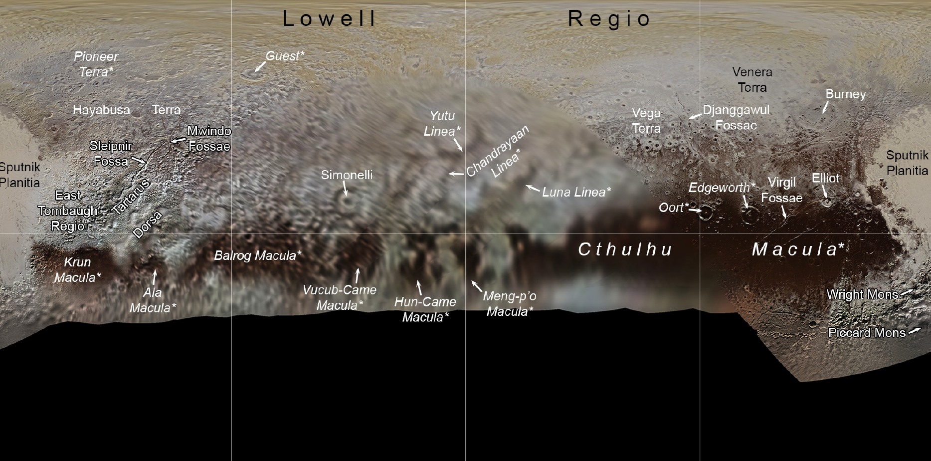 Pluto - Far Side View - 2019 (high-rez)[1][2][3] Images of the non-encounter side of Pluto are lower-resolution than images of the encounter side, but they still contain important information that helps characterize that part of the dwarf planet. Italicized names are informal, others are formal. References ↑ Dvorsky, George (October 23, 2019). "Fresh Look at New Horizons Data Shows Pluto’s ‘Far Side’ in Unprecedented Detail". Gizmodo. Retrieved on October 26, 2019. ↑ Gough, Evan (October 25, 2019). "New Horizons Team Pieces Together the Best Images They Have of Pluto’s Far Side". Universe Today. Retrieved on October 26, 2019. ↑ Stern, S.A. (2019). "Pluto’s Far Side". arxiv. Retrieved on October 26, 2019.